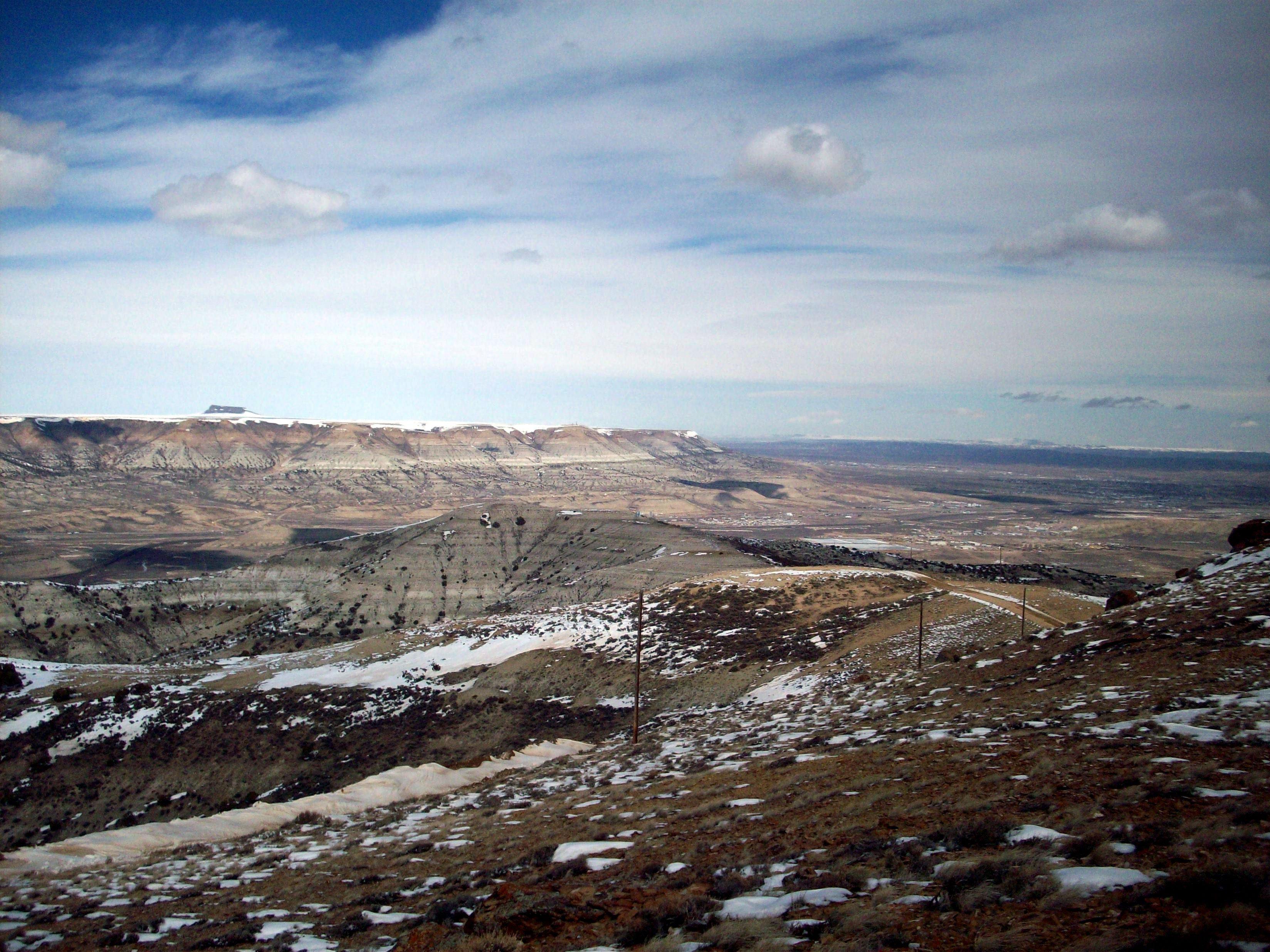 White Mountain (and Pilot Butte), near Rock Springs, Wyoming. This picture was taken looking north from Wilkins Peak.